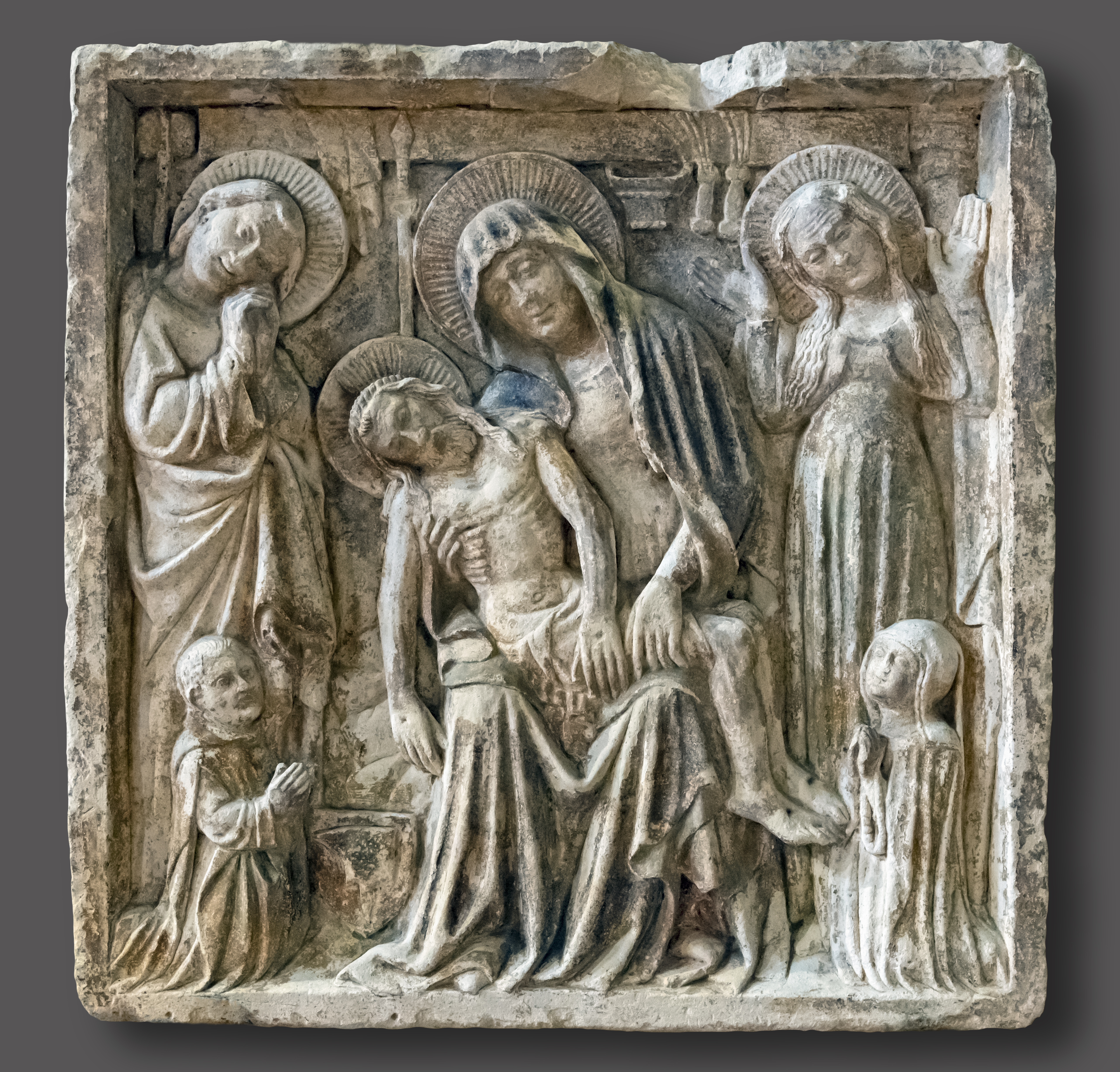 Virgin of Mercy in front of the instruments of the Passion. The donor spouses are presented by Saint John and Saint Mary Magdalene.